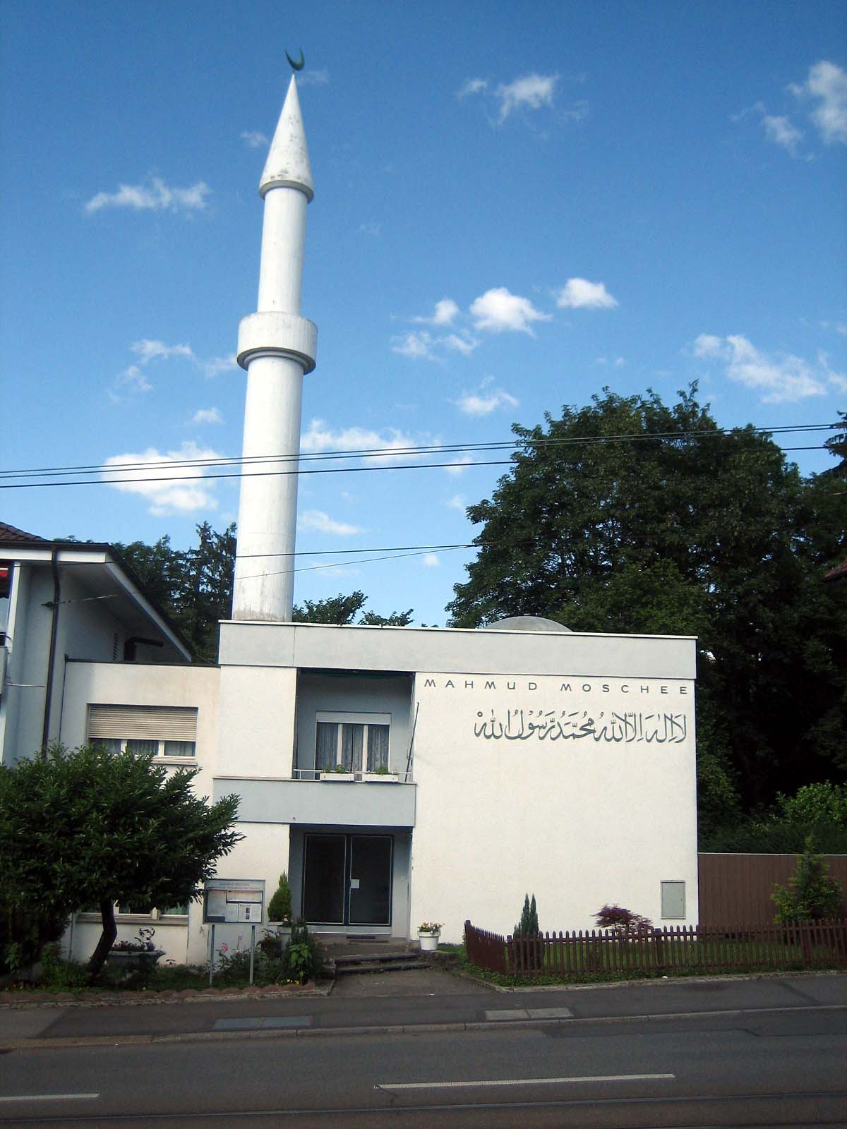 Mahmood Mosque in Zürich